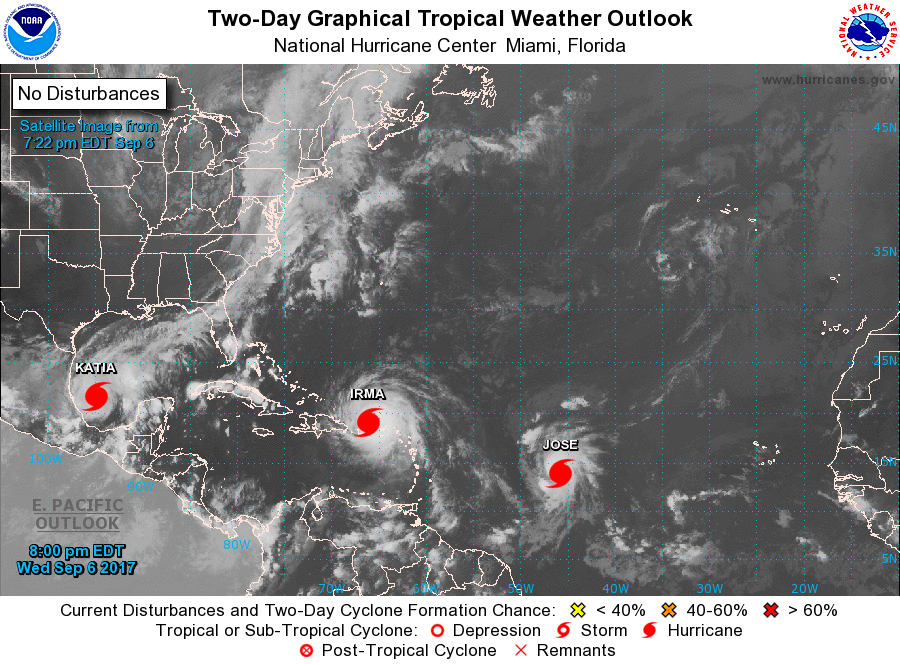 NWS Southern Region Tropical weather map, showing Hurricane Irma, Jose and Katja in the Caribbean Sea.